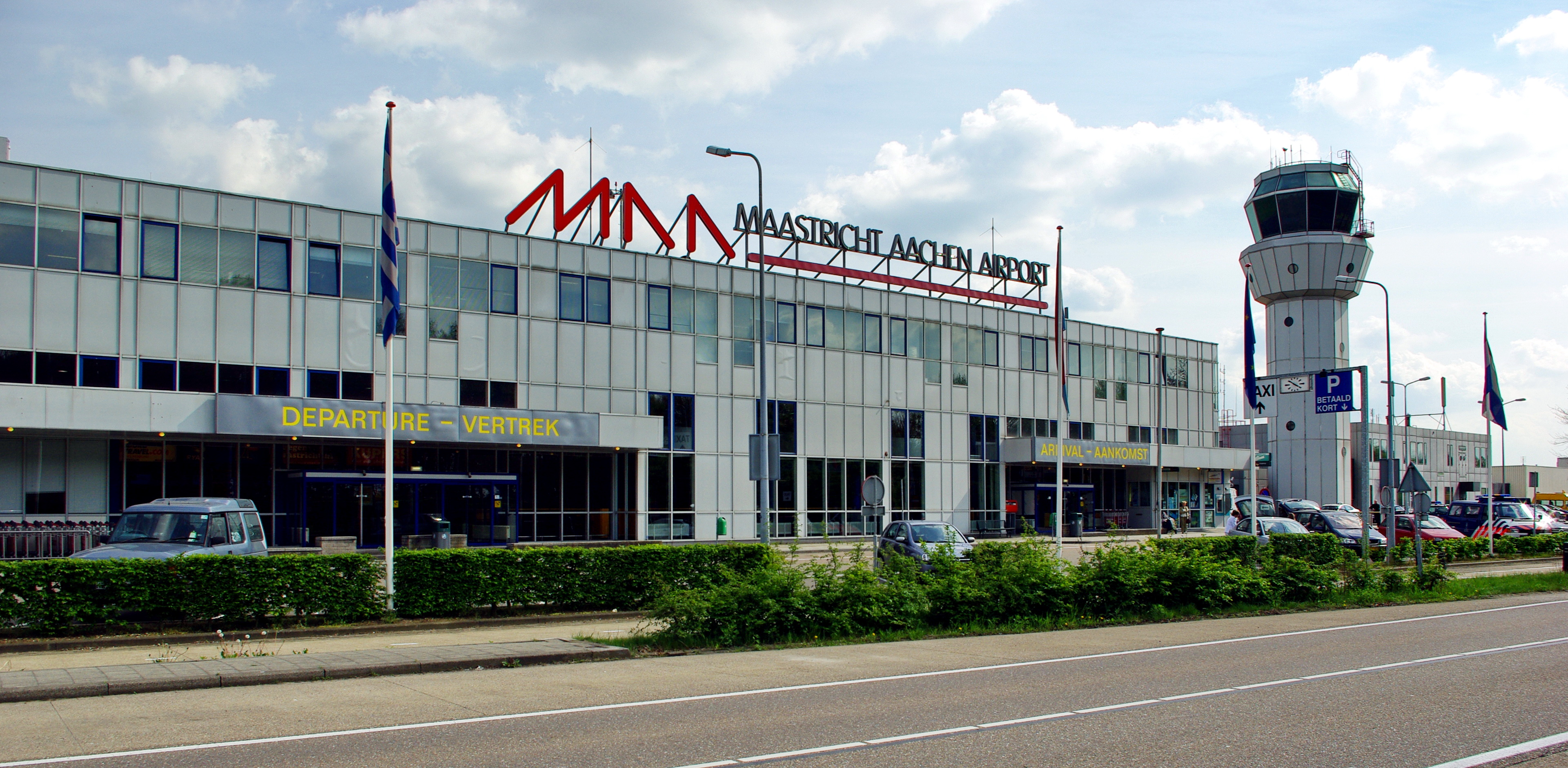 Terminal at Maastricht-Aachen Airport (EHBK)